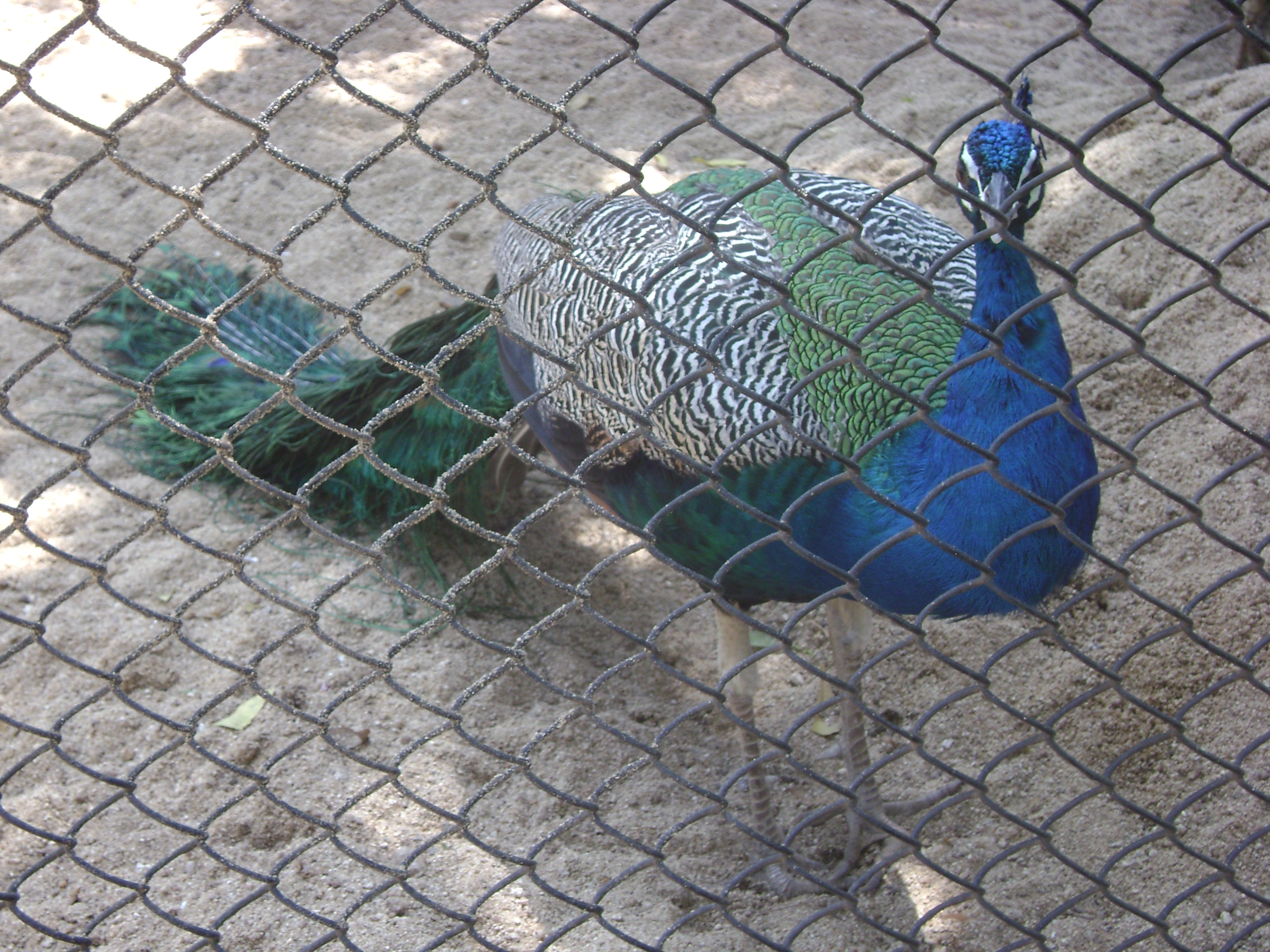 Indian Peafowl at Childrens Park, Guindy National Park, Chennai